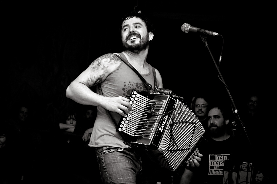 Xabi Solano, Asthmatic Lion Sound Systema live in Clash / Berlin